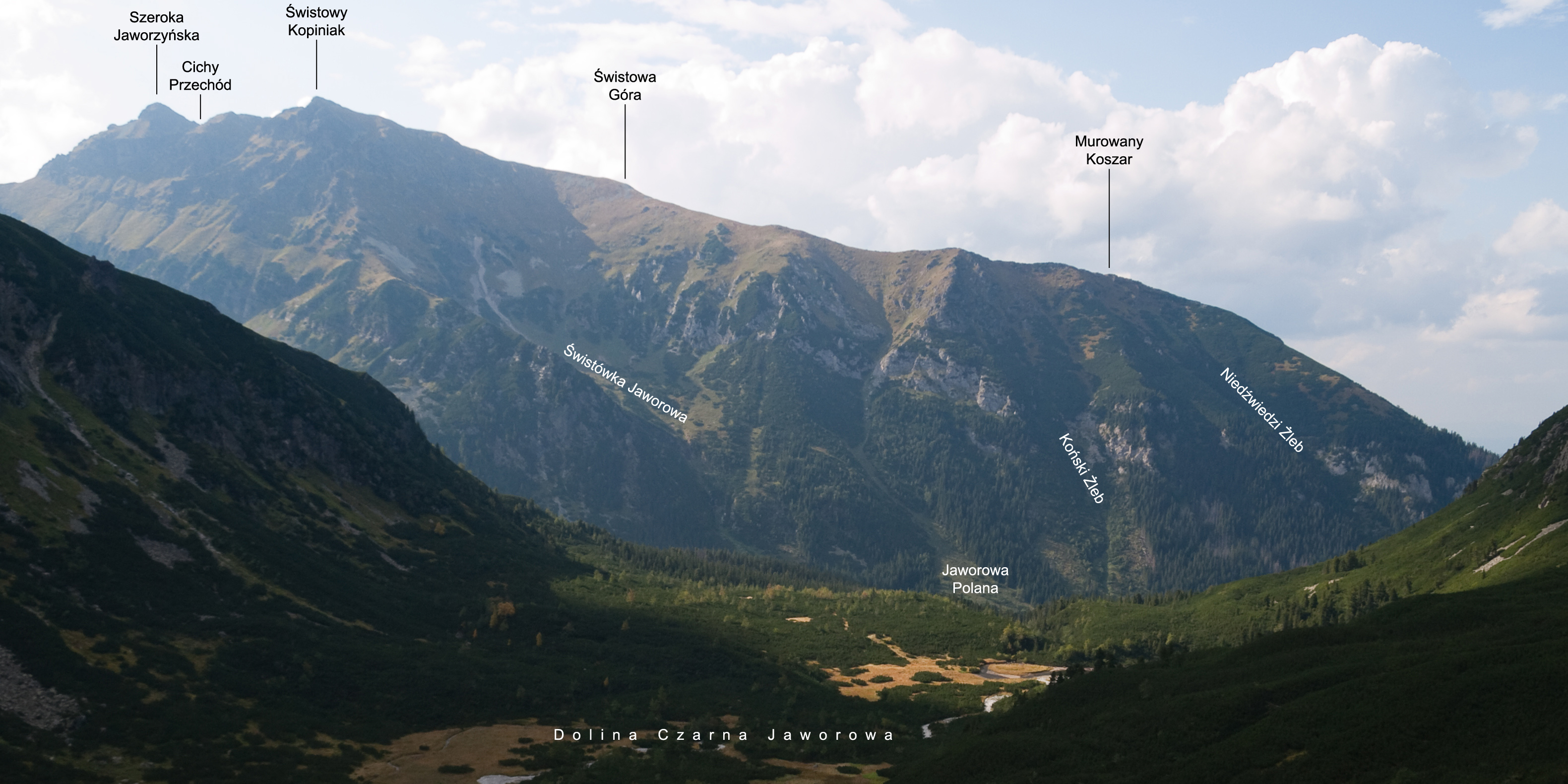 Široká Javorinská – view from Čierna Javorová valley (Polish captions).